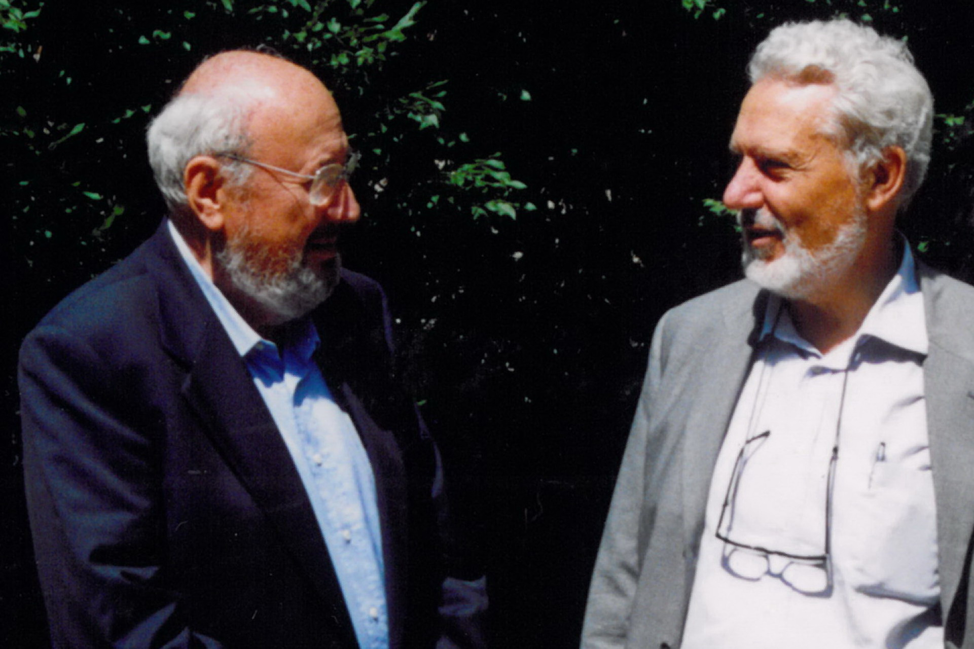 Heinz Waibl e Giorgio Casati nel cortile di via Giusti 3-5, Milano, 2009